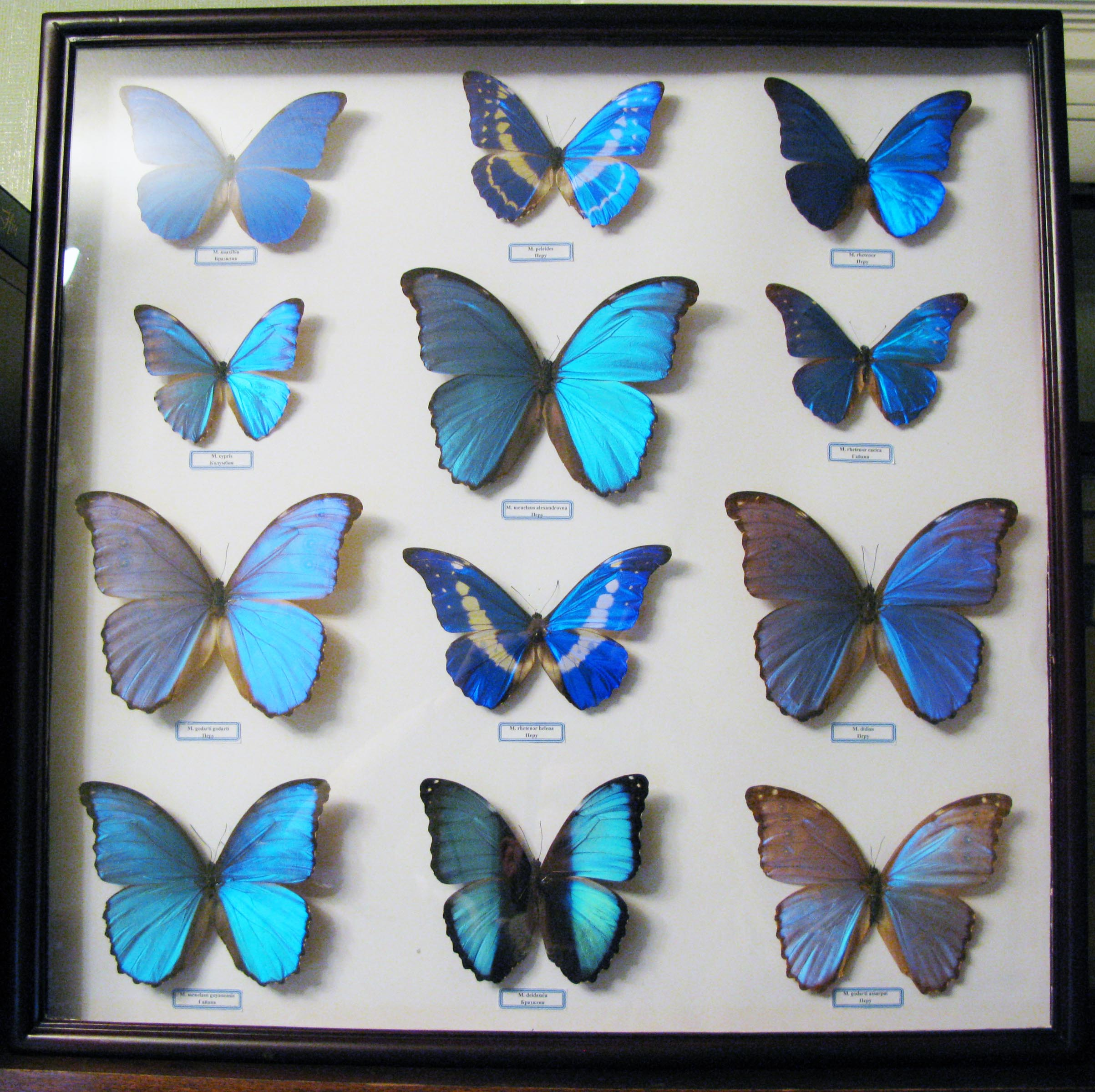 A collection of twelve blue morpho butterflies